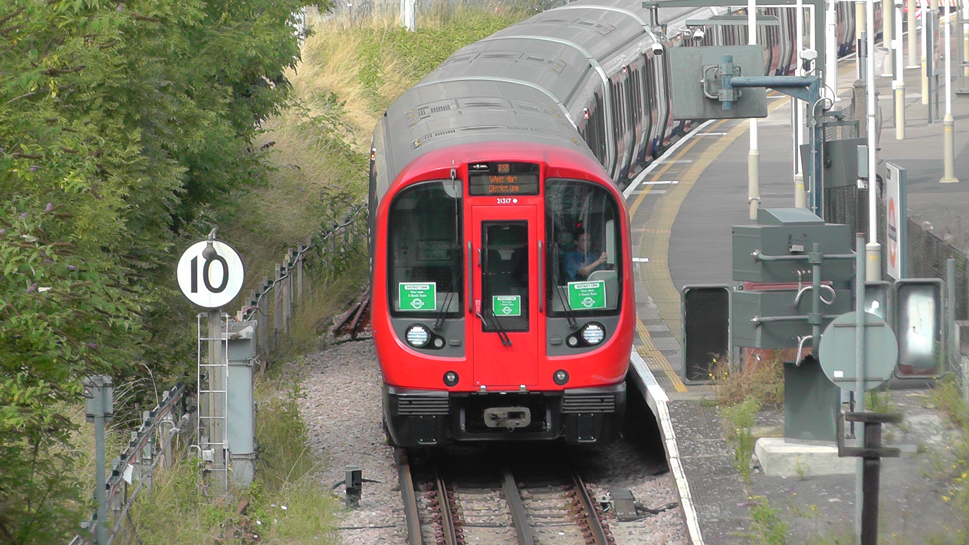 London Underground District Line S7 S Stock train at Olympia station. The S7 Stock was introduced in 2012, making it the newest train on the London Underground network and also on any rapid transit system in the United Kingdom. It was ordered to replace the C69, C77 and D78 stock trains on the Circle, District and Hammersmith & City lines. The C Stock was withdrawn before any D stock withdrawals were made because the D stock is newer and underwent extensive refurbishment more recently and the C stock was described as being "in an increasingly poor state". Deliveries of the S7 stock are scheduled to be complete by 2016.